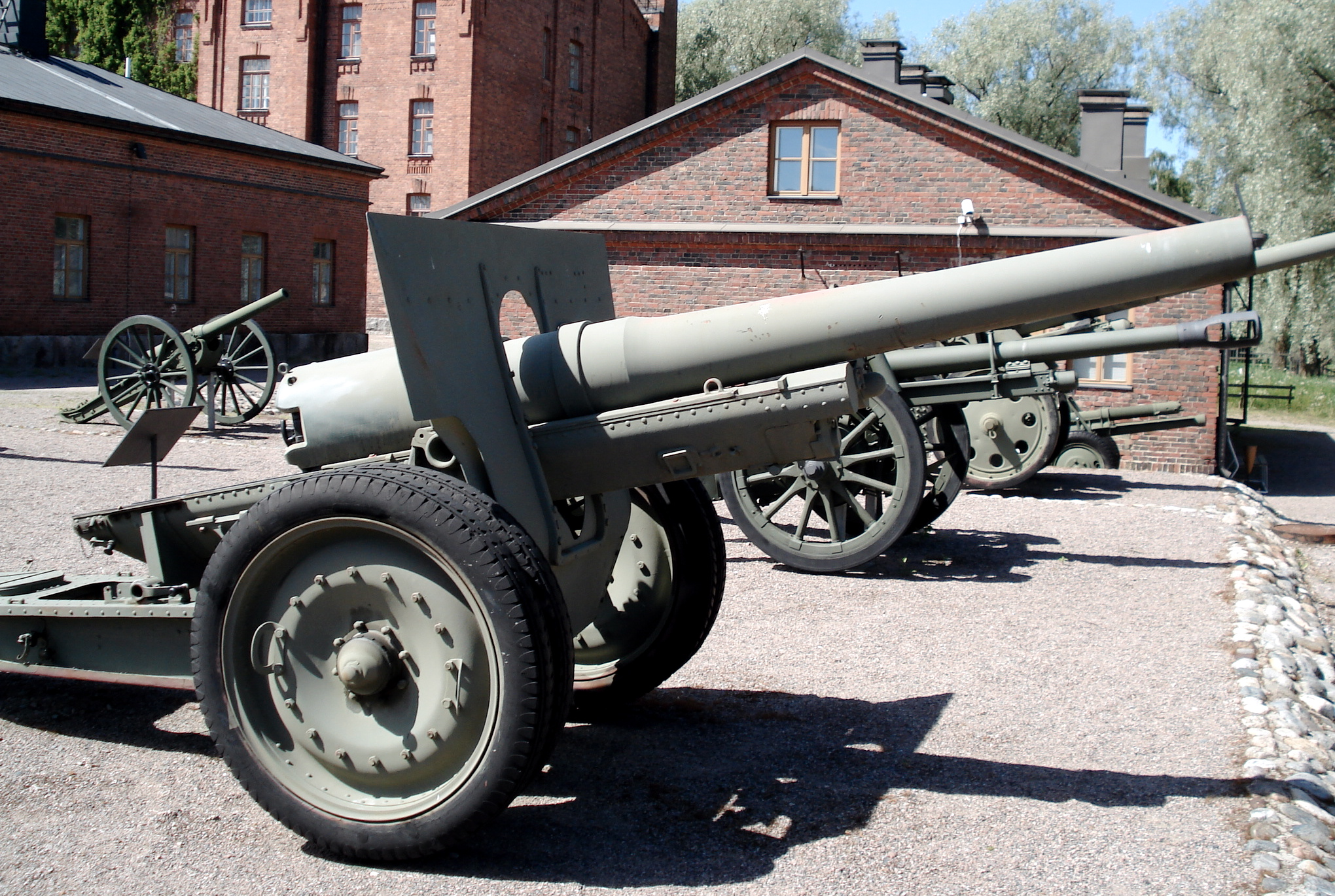 Polish wz. 78-10-31 Schneider 120 mm gun, manufactured in Starachowice in 1934, displayed in Hämeenlinna Artillery Museum. The gun probably has had its original wooden-spoke wheels with steel rim replaced with modern wheels with rubber tires, though some of these guns were manufactured with rubber tires to make them suitable for motor transport. Photo taken on June 18, 2006. Source: Photo by me, User:Balcer.